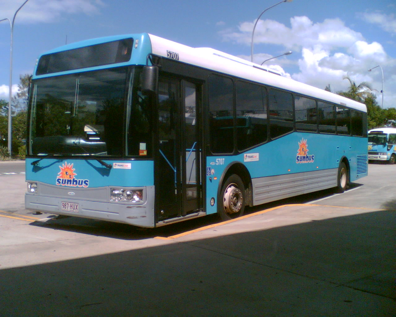 Volvo B12BLE with Bustech VST body (#5707, 987 HUX, built 2004) in Sunbus colours at Sunshine Plaza in Maroochydore, Australia.